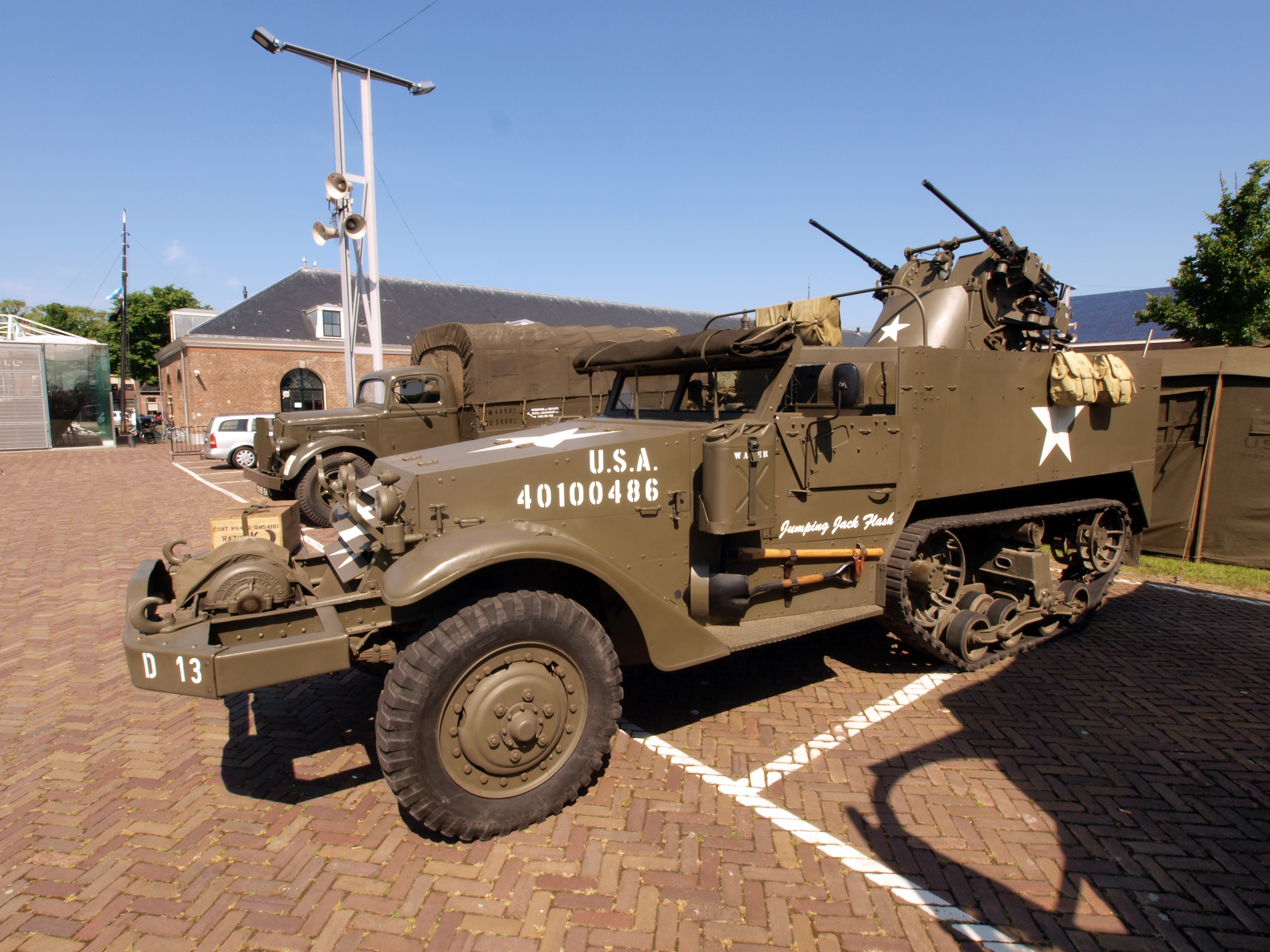 Photographed at Den Helder, The Netherlands. OLYMPUS DIGITAL CAMERA